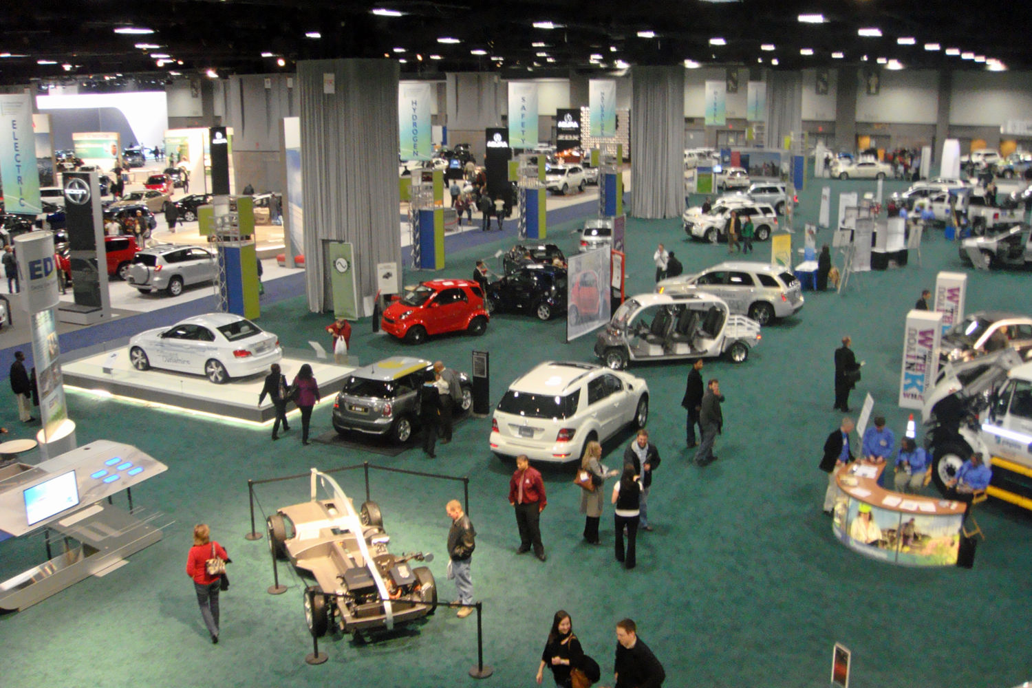 Panoramic view of the Advanced Technology Super Highway exhibition floor at the 2010 Washington Auto Show